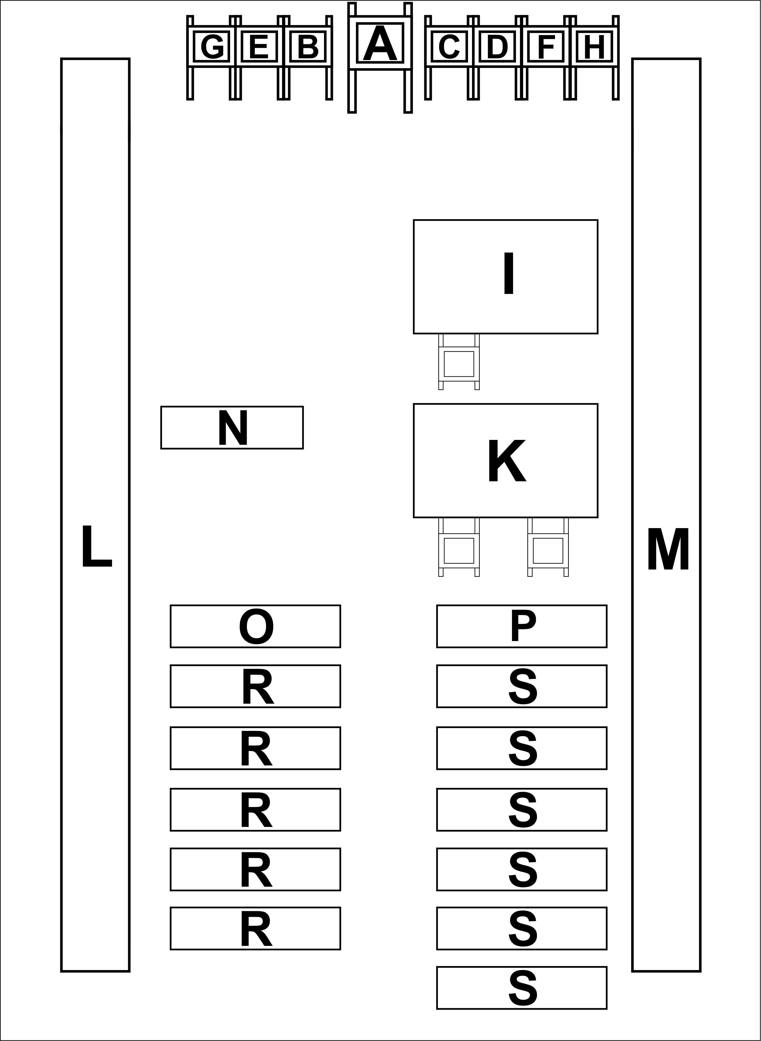 Imperial Diet plan